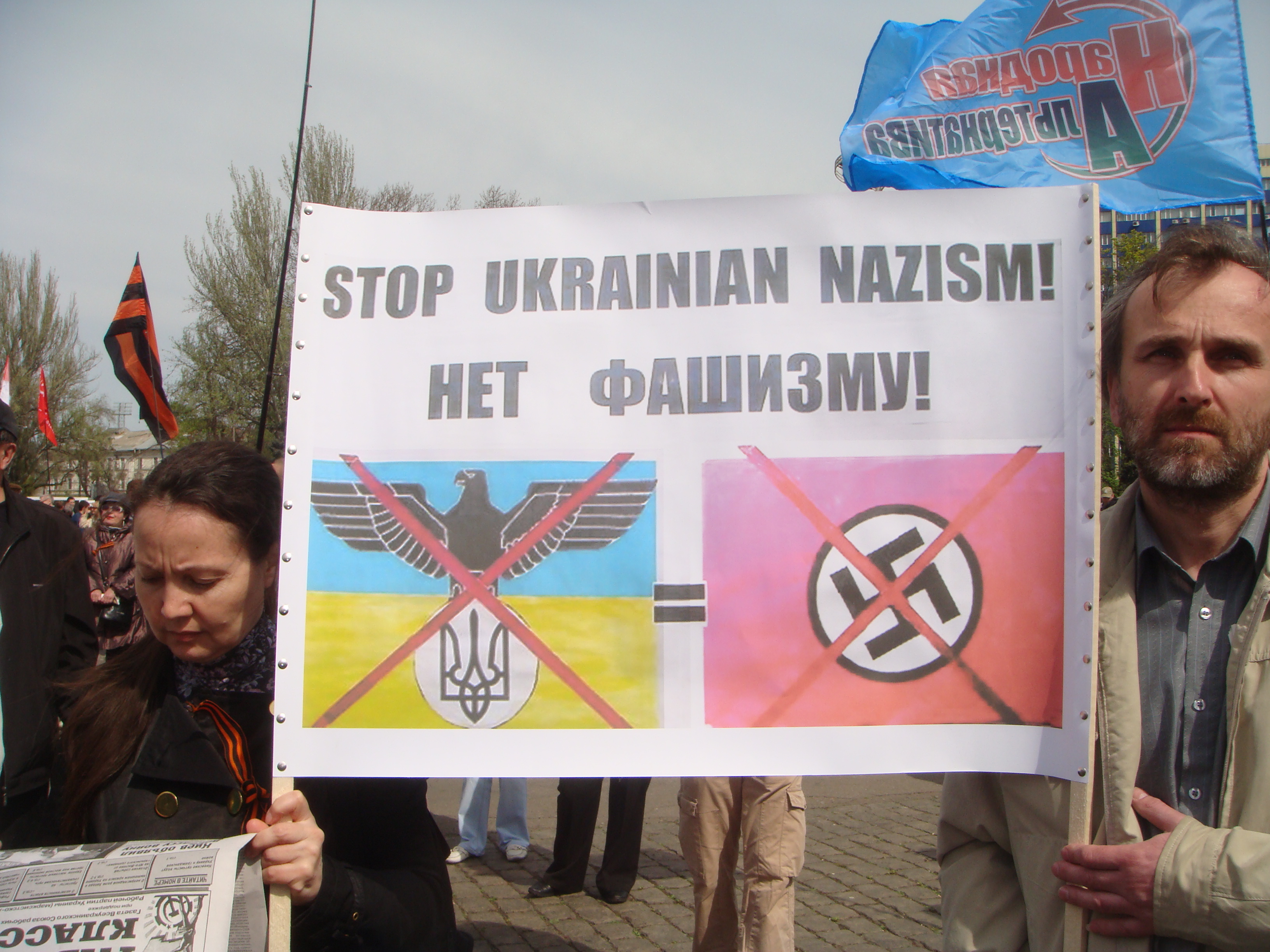 Meeting of pro-Russian activists in Odessa at Kulikovo Pole square on April the 20th 2014